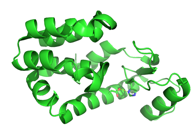 t4 lysozyme (P00720) salt bridge. sidechains are Asp70 and His31.